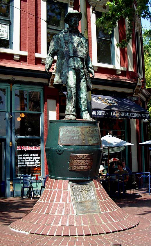 Statue of "Gassy Jack" in Vancouver, British Columbia, Canada.